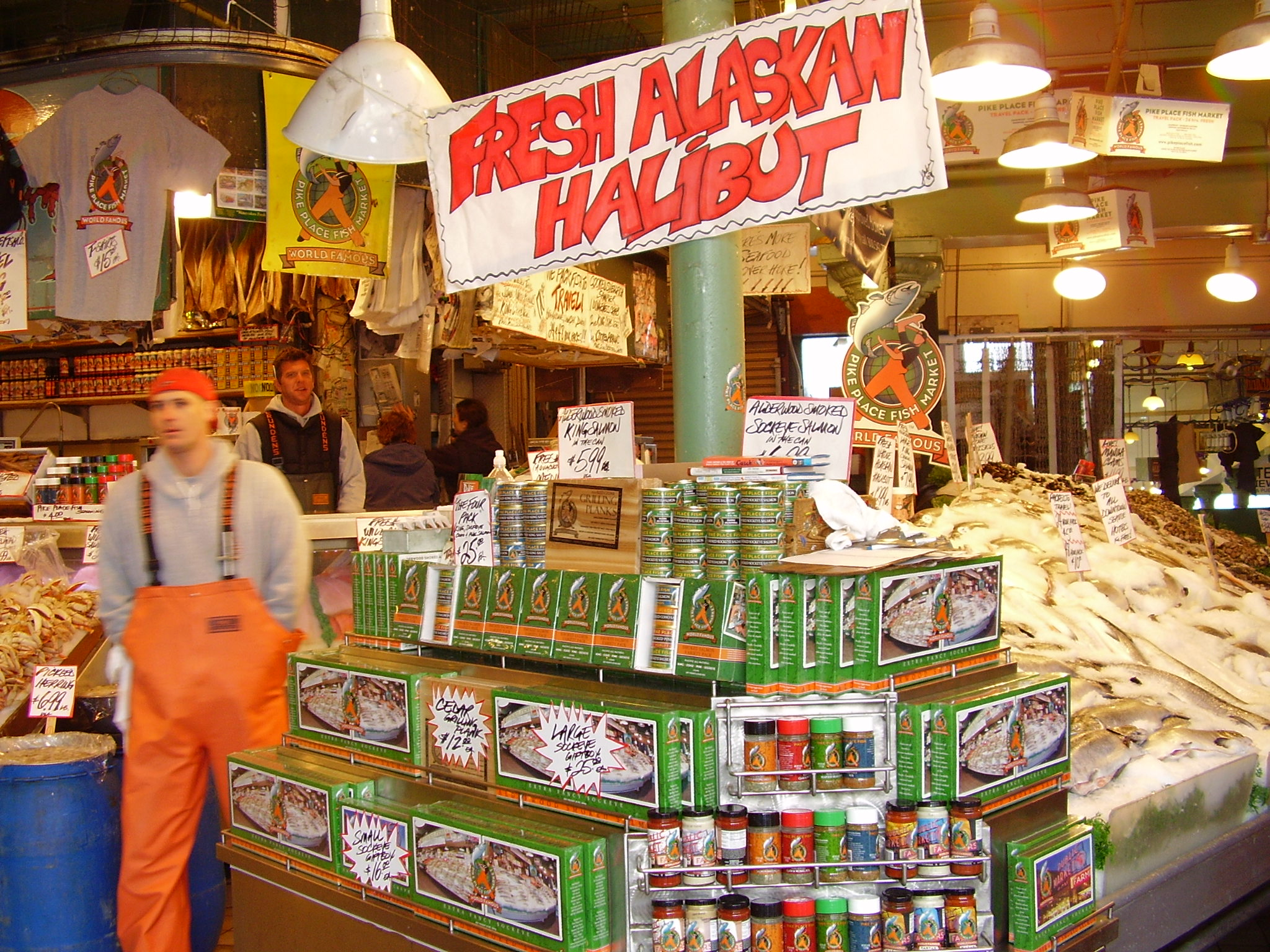 Seattle Public Market - Flying Fish